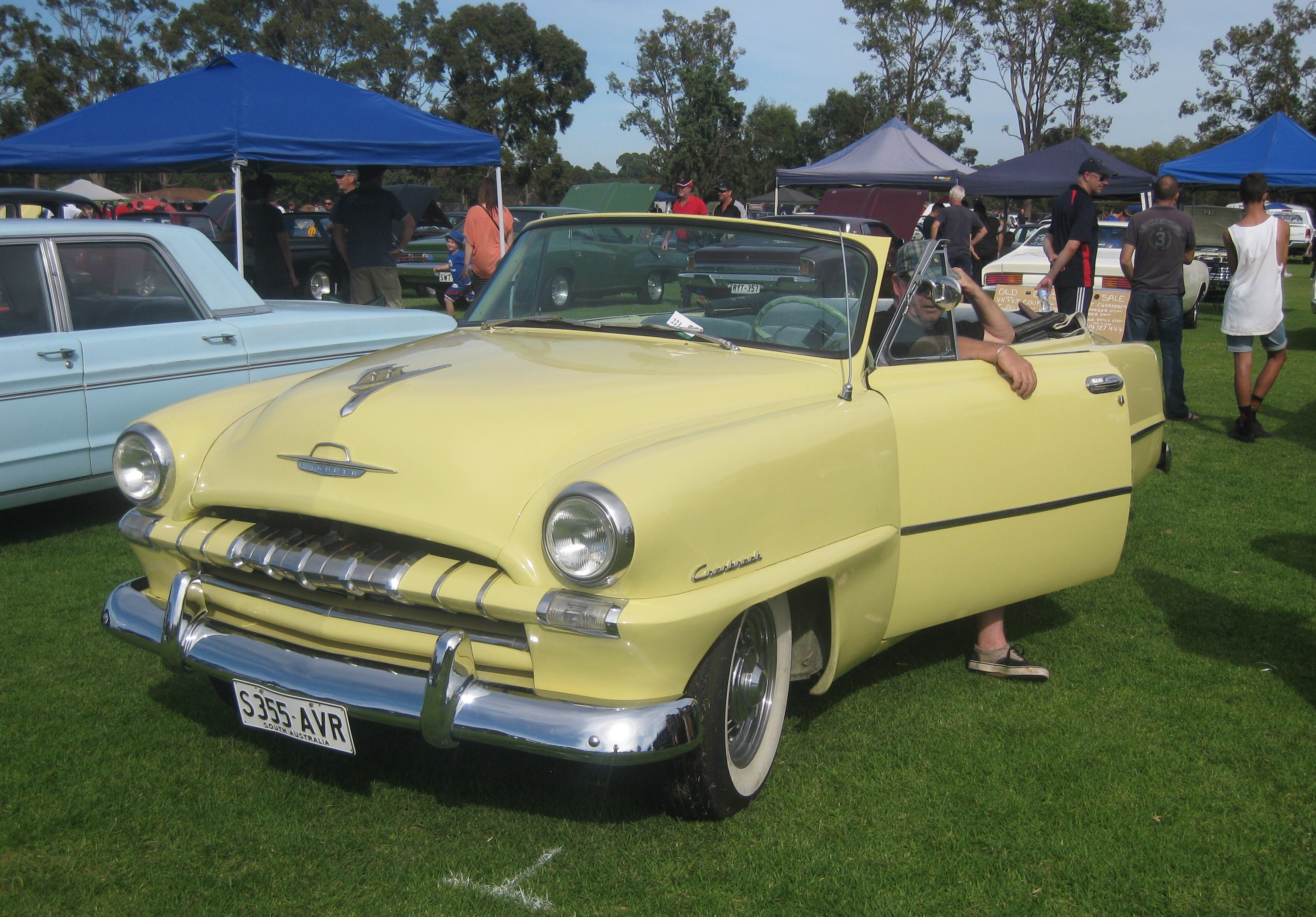 1953 Plymouth Cranbrook Convertible Club Coupe